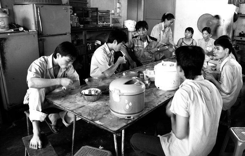 Vietnamese migrant factory workers gathering for a lunch break in their dormitory Taiping, Perak, Malaysia